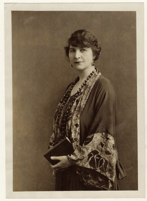 PORTRAIT OF DR LULU HUNT PETERS (1923 PRESS PHOTO OF THE PIONEER DIET DOCTOR)